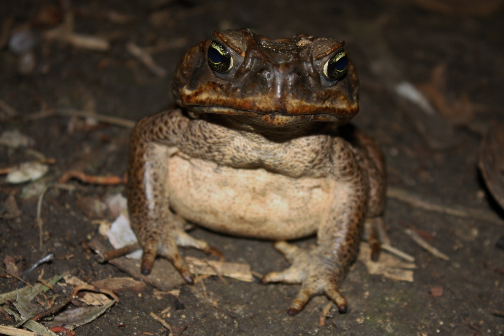 Found next to the Loboc river on Bohol. Sad to find they have been introduced to the Philippines.